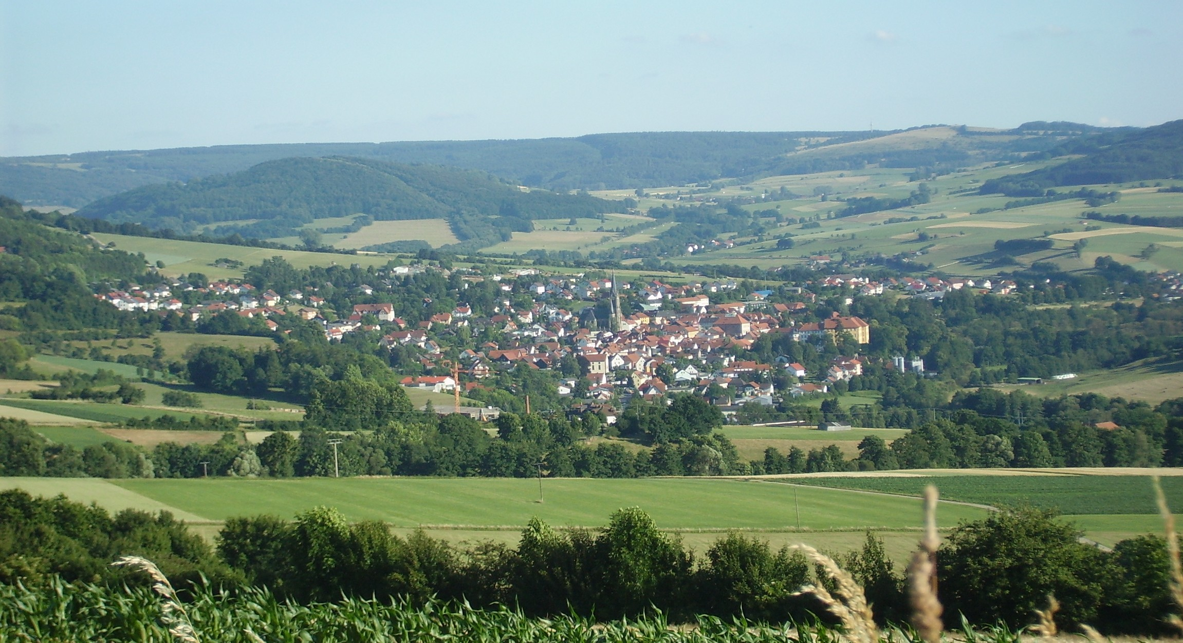 Photo of the small city Tann in the Rhön mountains